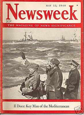 Cover of the May 13, 1940 issue of Newsweek magazine. The issue features Benito Mussolini on the cover. The issue cost 10 cents.